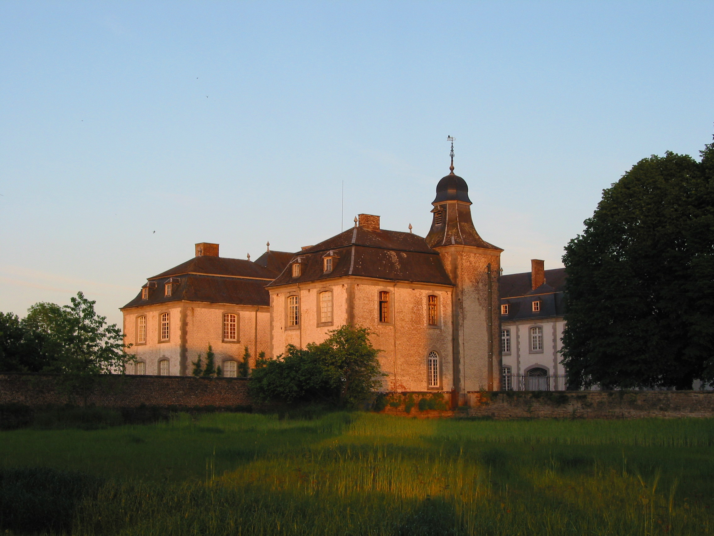 Deulin (Fronville, Belgium): "De Harlez"'s castle (18th century).